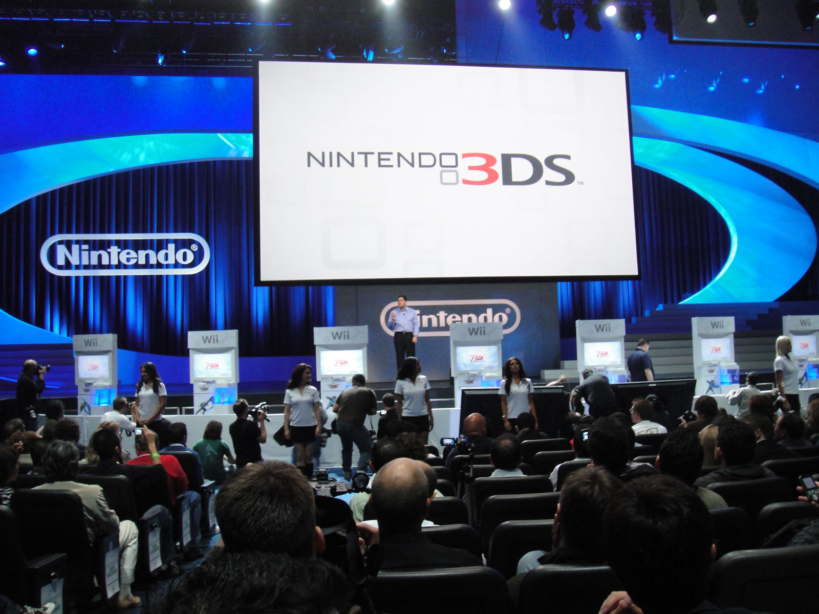 E3 2010 Nintendo Media Event - The Legend of Zelda: Skyward Sword demo machines rise from the floor